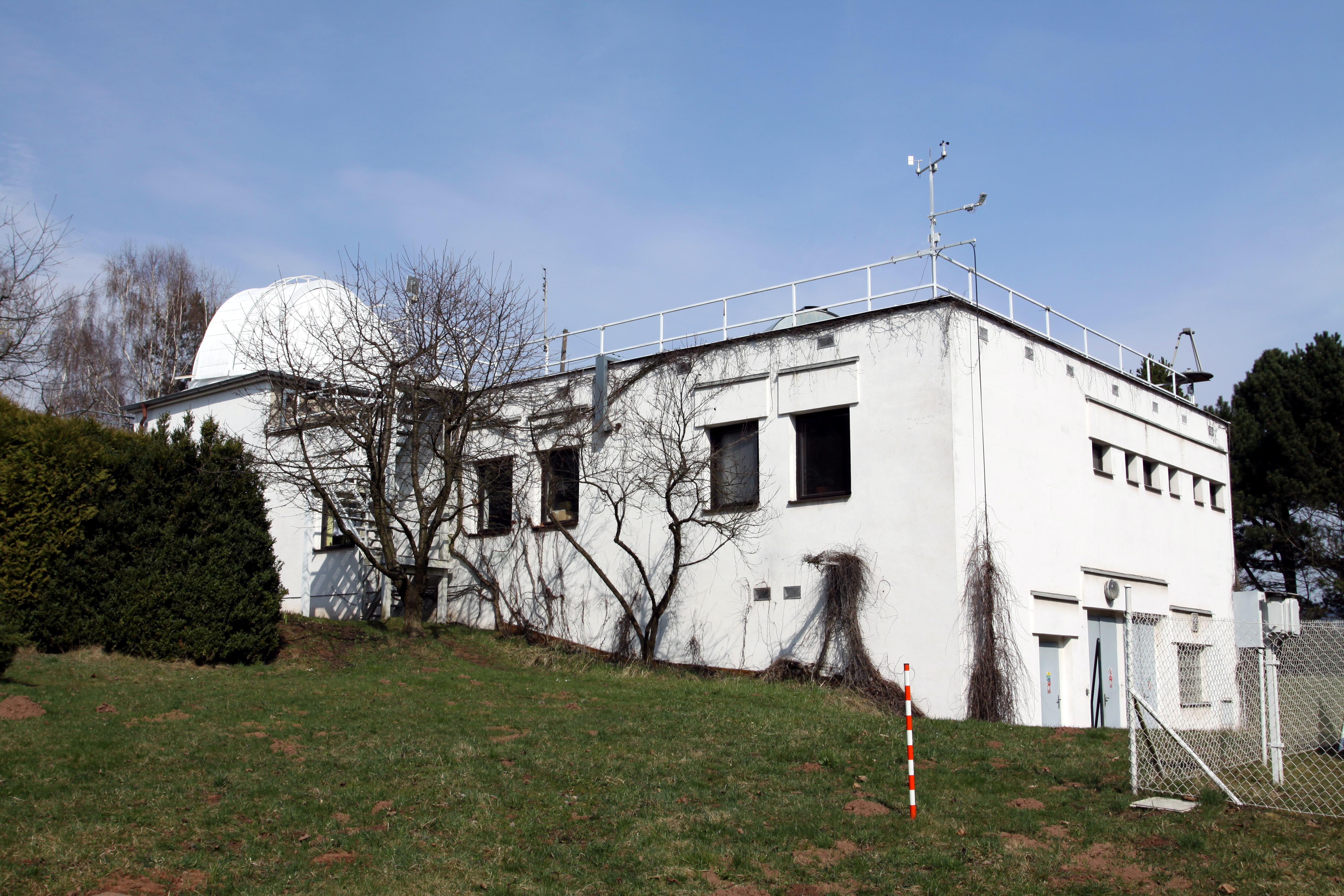 Observatory Úpice near town Úpice, Trutnov District, Czech Republic - Google Maps - Google Earth